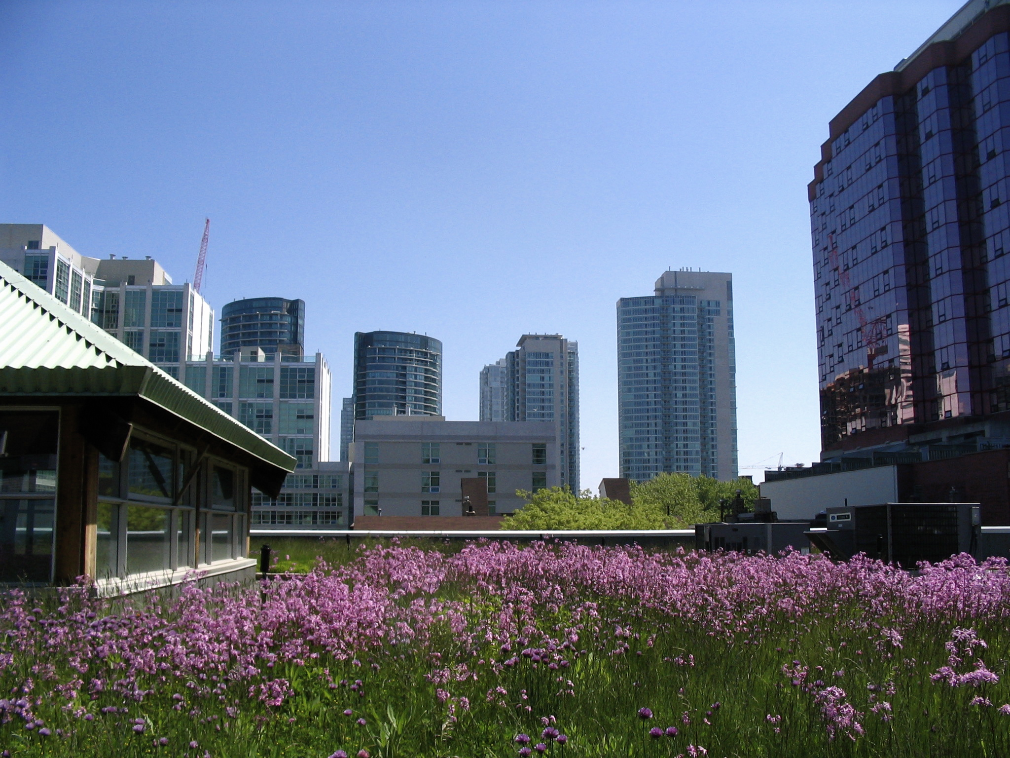 Green roof at Mountain Equipment Coop, Toronto, Canada. The store was built in 1998. This photo was chosen to appear at Bruce Mau's MASSIVE CHANGE exhibit recently held in Chicago. Environmental benefits of green roofs in an urban setting include: -reduces stormwater runoff that affects water for drinking and swimming, as well as habitat in local rivers and lakes -reduces energy consumption -reduces the urban heat island effect by lowering the City's temperature and therefore reduces cooling costs -beautifies the City -creates more natural green spaces in urban areas -provides more habitat area for wildlife including migratory birdsMEC's green roof among others